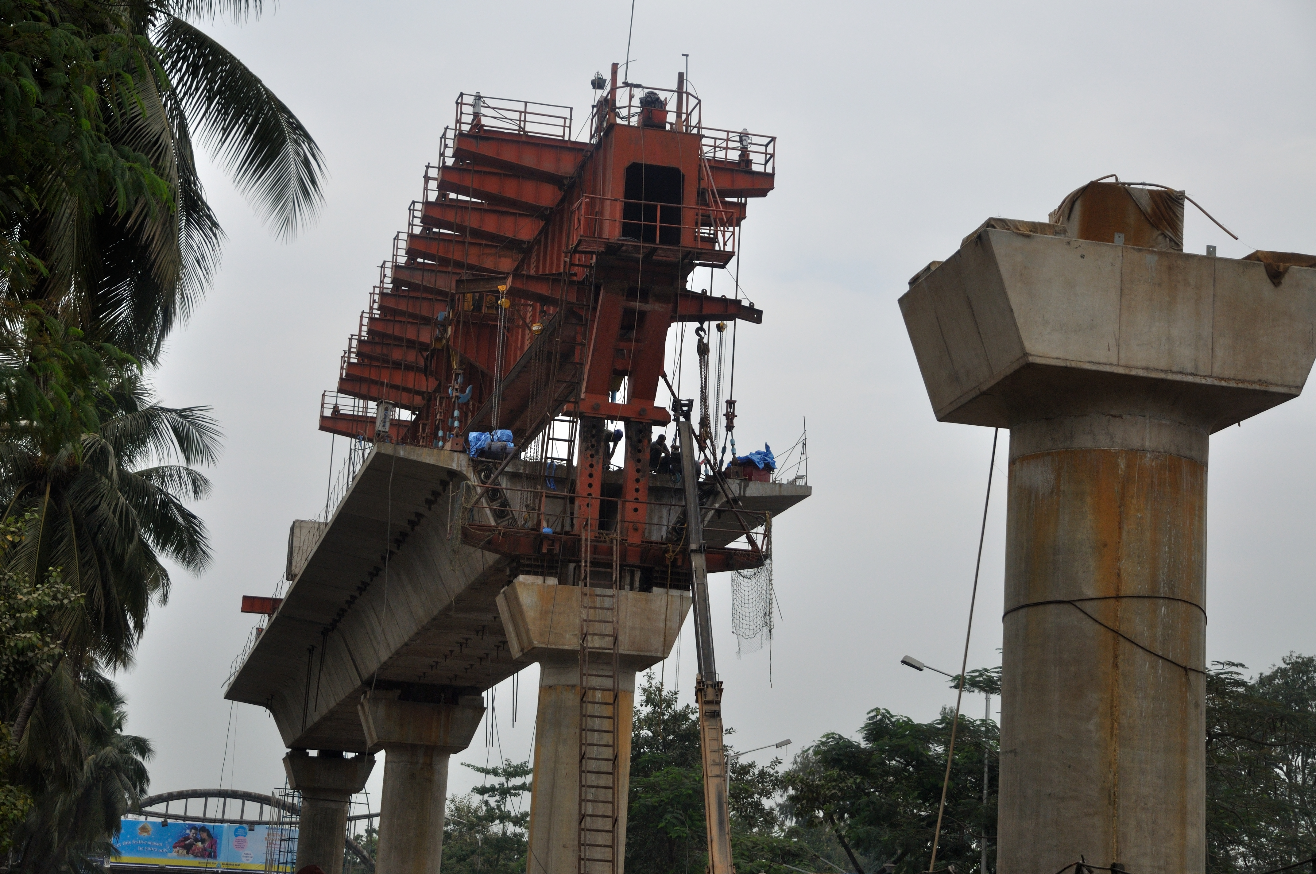 Photographed in Kolkata.